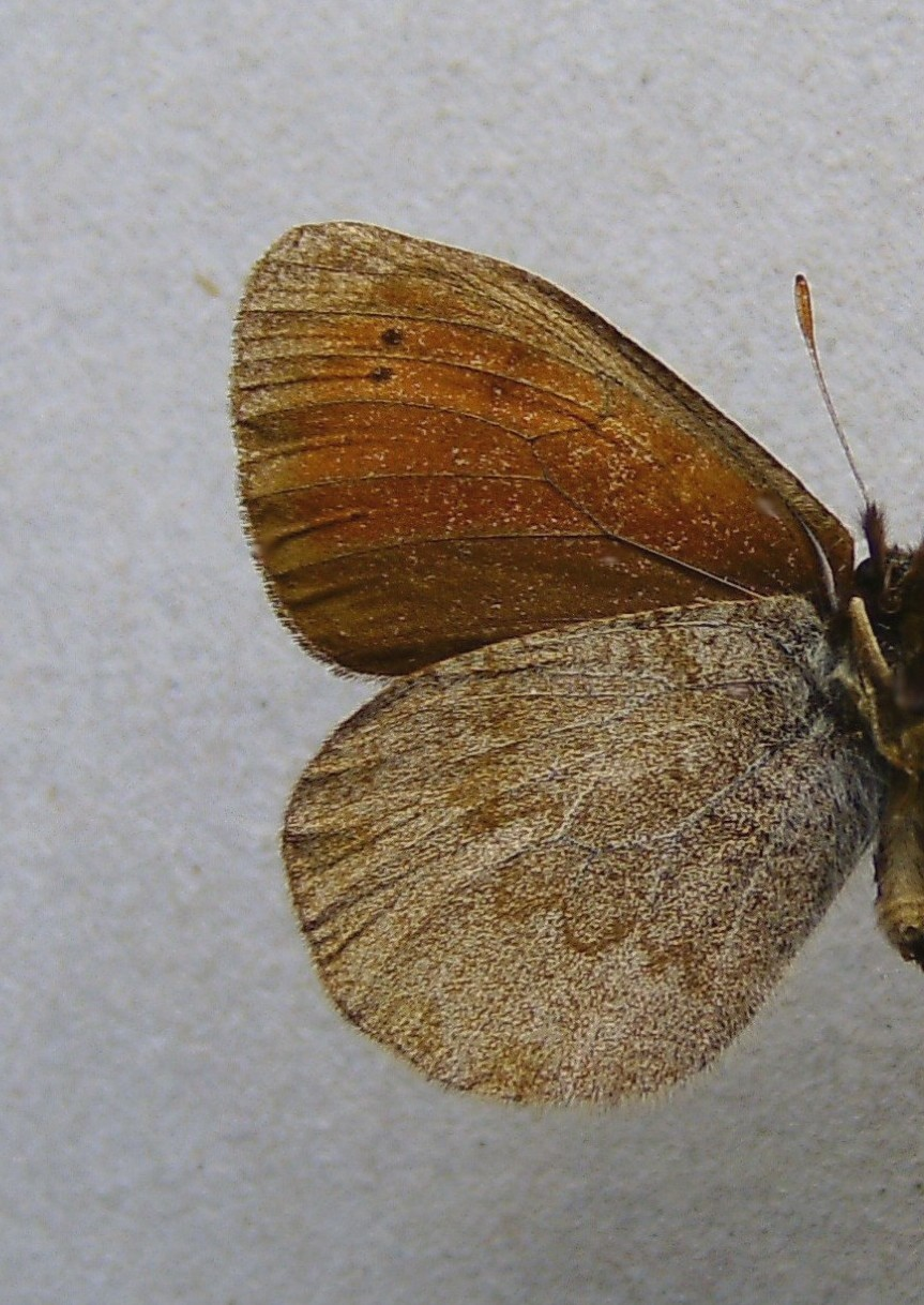 Erebia pandrose